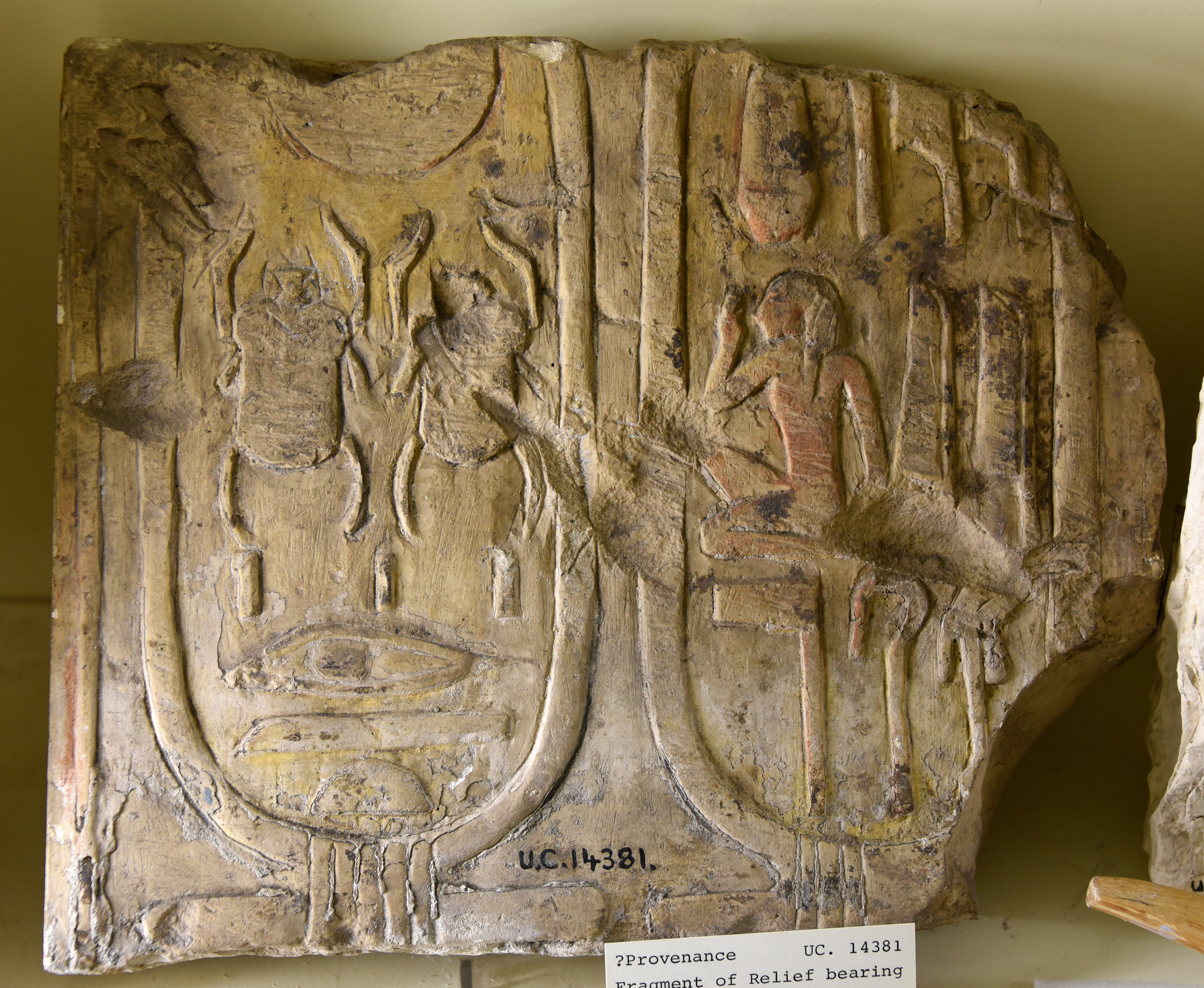 Limestone fragment showing 2 cartouches, which bear the throne-name (left) and birth-name and the epithet "god's father Ay the god the ruler of Thebes" (right) of Ay. From Egypt. 18th Dynasty.The Petrie Museum of Egyptian Archaeology, London. With thanks to the Petrie Museum of Egyptian Archaeology, UCL.